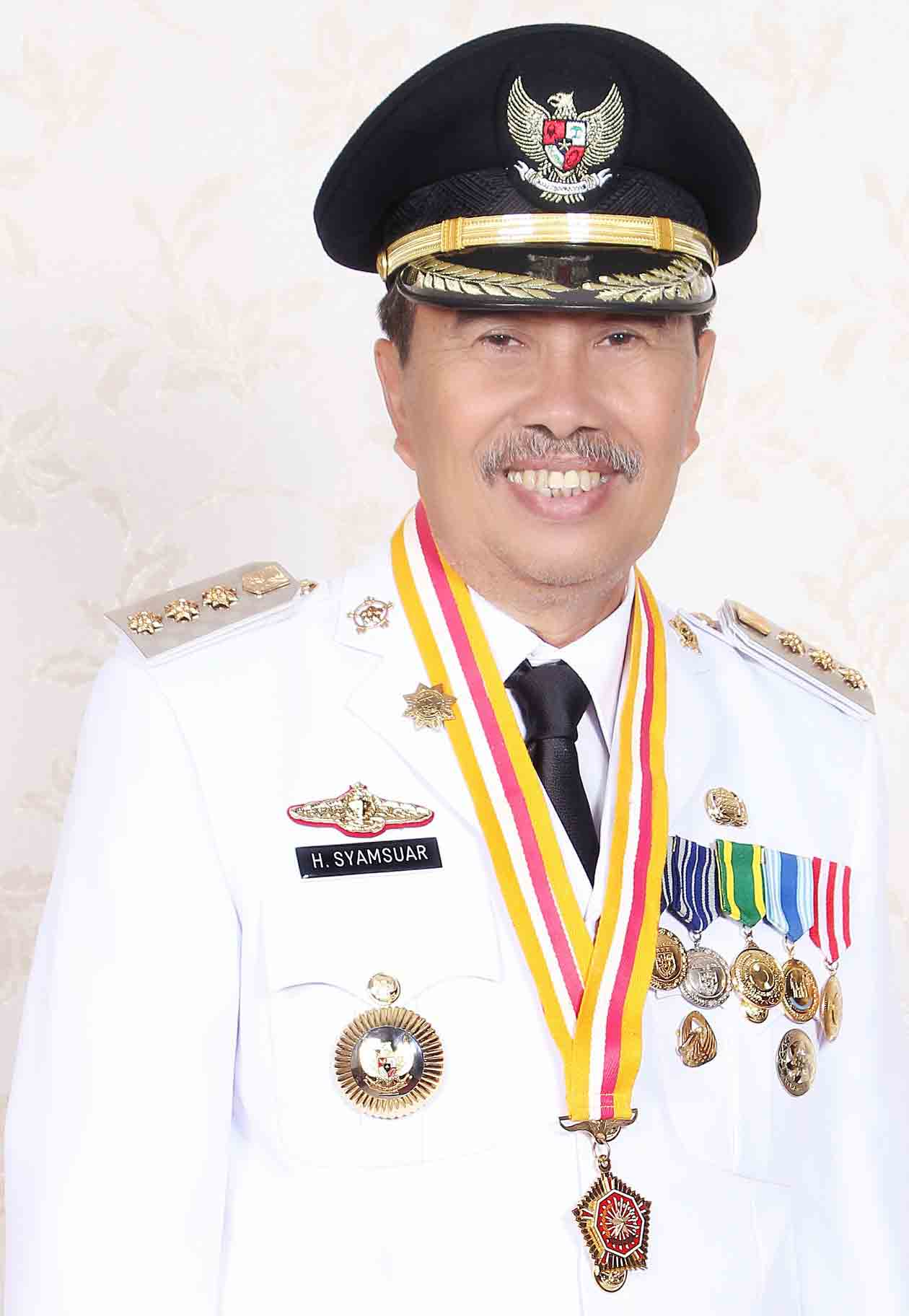 Syamsuar, regent of Siak Regency